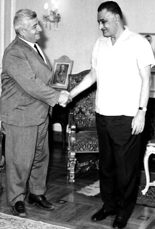 Lebanese Member of Parliament for Sidon shaking hands with Egyptian President Gamal Abdel Nasser in his Cairo office